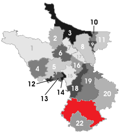 Map of the Papaloapan Region (8° of Veracruz) where it see the Playa Vicente municipallity